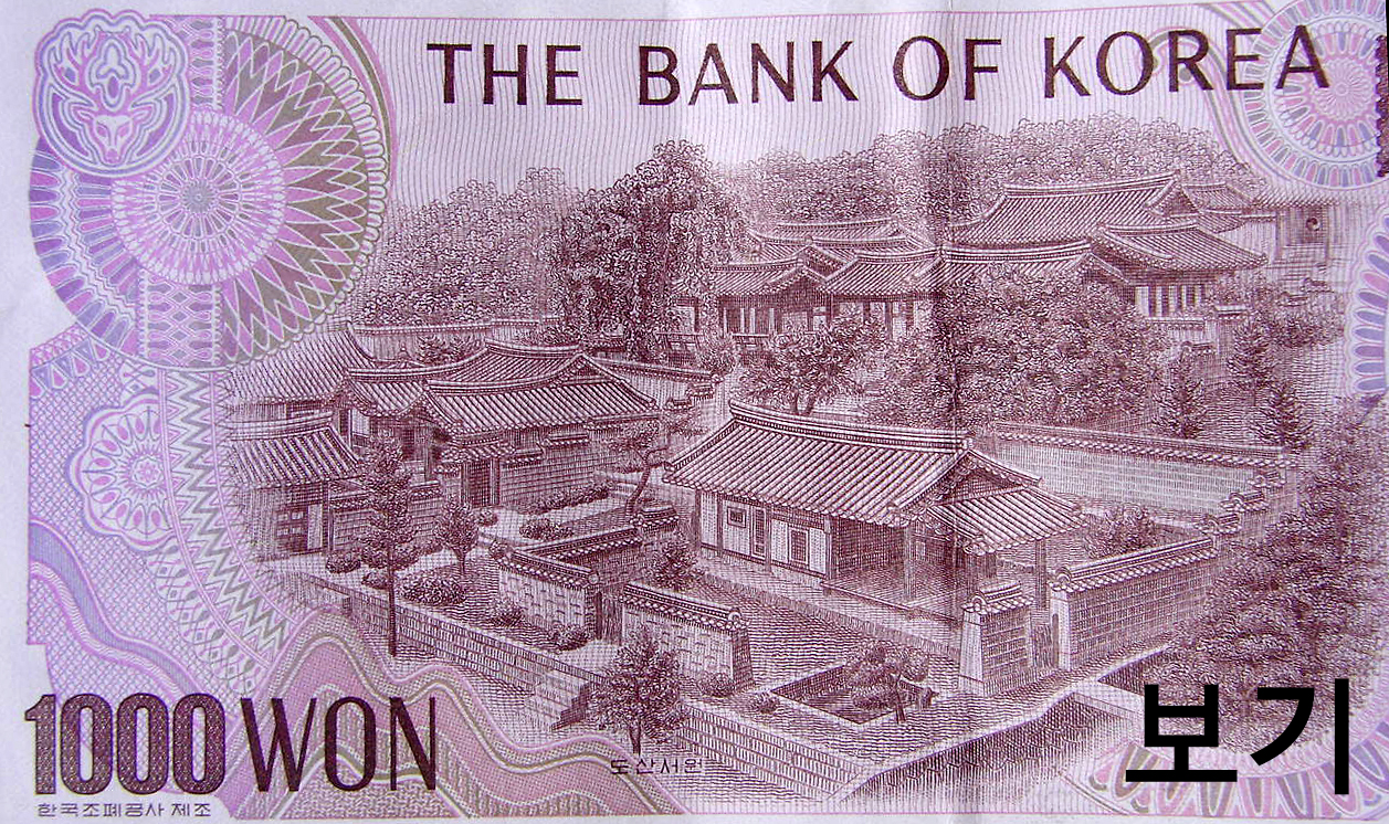 1000 Won note depicting Dosan Seowon - Confucian Academy, was established in 1574 in Andong, South Korea, in memory of Confucian scholar Yi Hwang by some of his disciples and other Confucian authorities and serves two purposes: education and commemoration. Commemorative ceremonies have been and are still held twice a year and was featured on the reverse of the South Korean 1,000 won bill from 1975 to 2007.